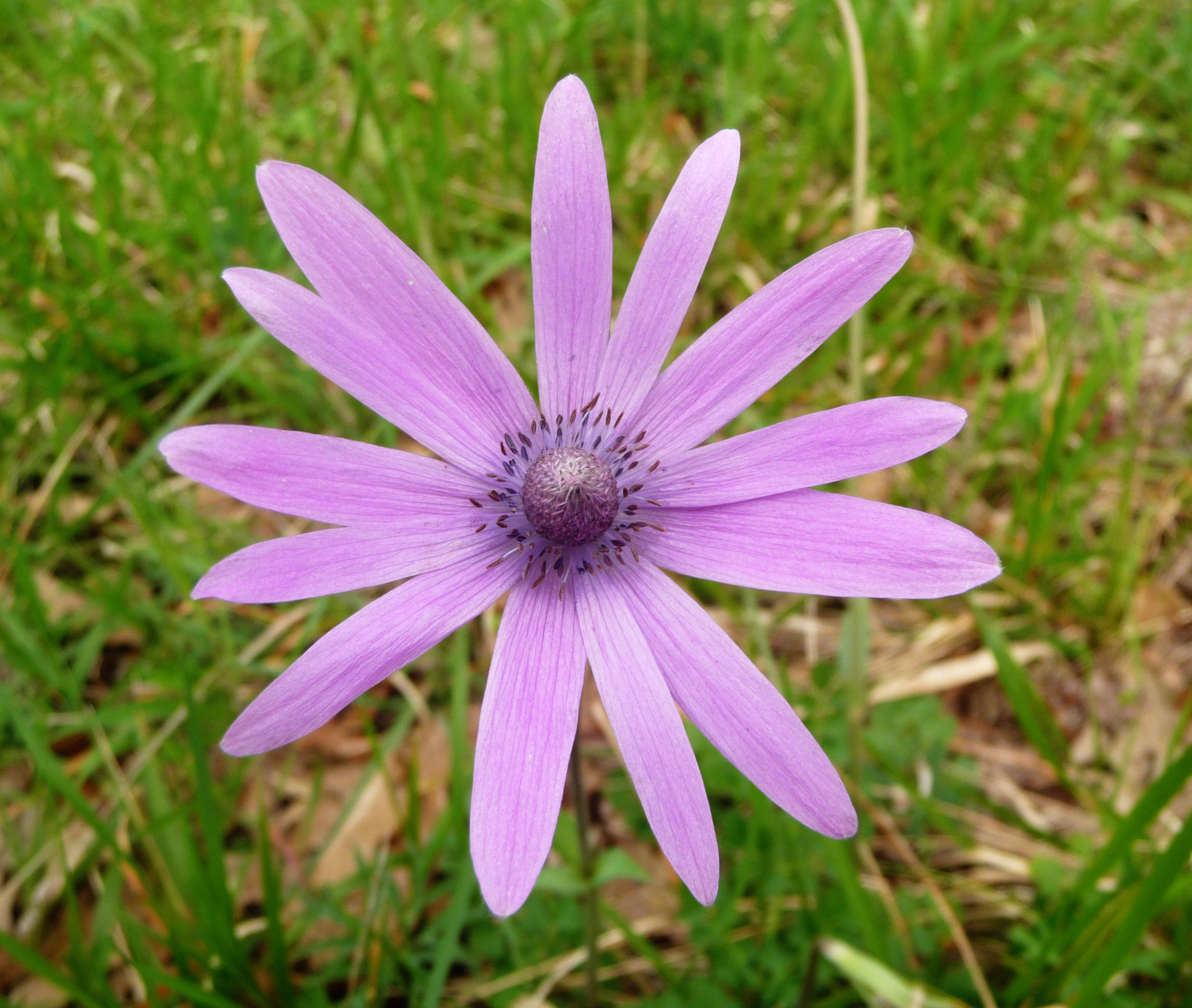 Anemone hortensis, near Livorno, Italy